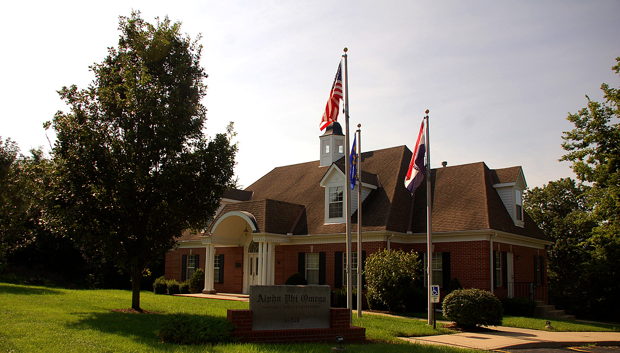 Photo of the Alpha Phi Omega National Office in Independence